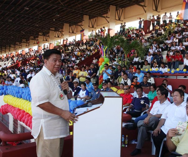 Taken when Former senate President and Liberal Party National Chairman Frank Drilon was at a speaking engagement in Zamboanga City last Friday, Feb. 25.